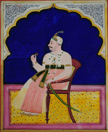 Sikandar Jah Nizam of Hyderabad, 19th century